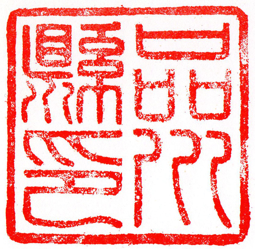 Imprint of the seal of Shinagawa prefecture, established in December 1869.